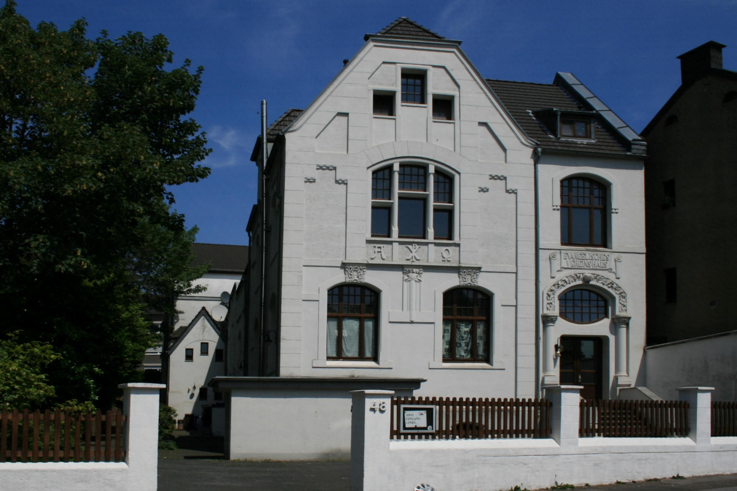 Cultural heritage monument No. O 007 in Mönchengladbach